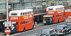 A couple of BEA Routemasters with their with luggage trailers, seen here loading/unloading outside Heathrow Airport's Terminal 2 building. They entered service in BEA blue and white, but in April 1969 the orange and white livery seen here was adopted. A darker blue & white livery followed when BEA became BA (British Airways).